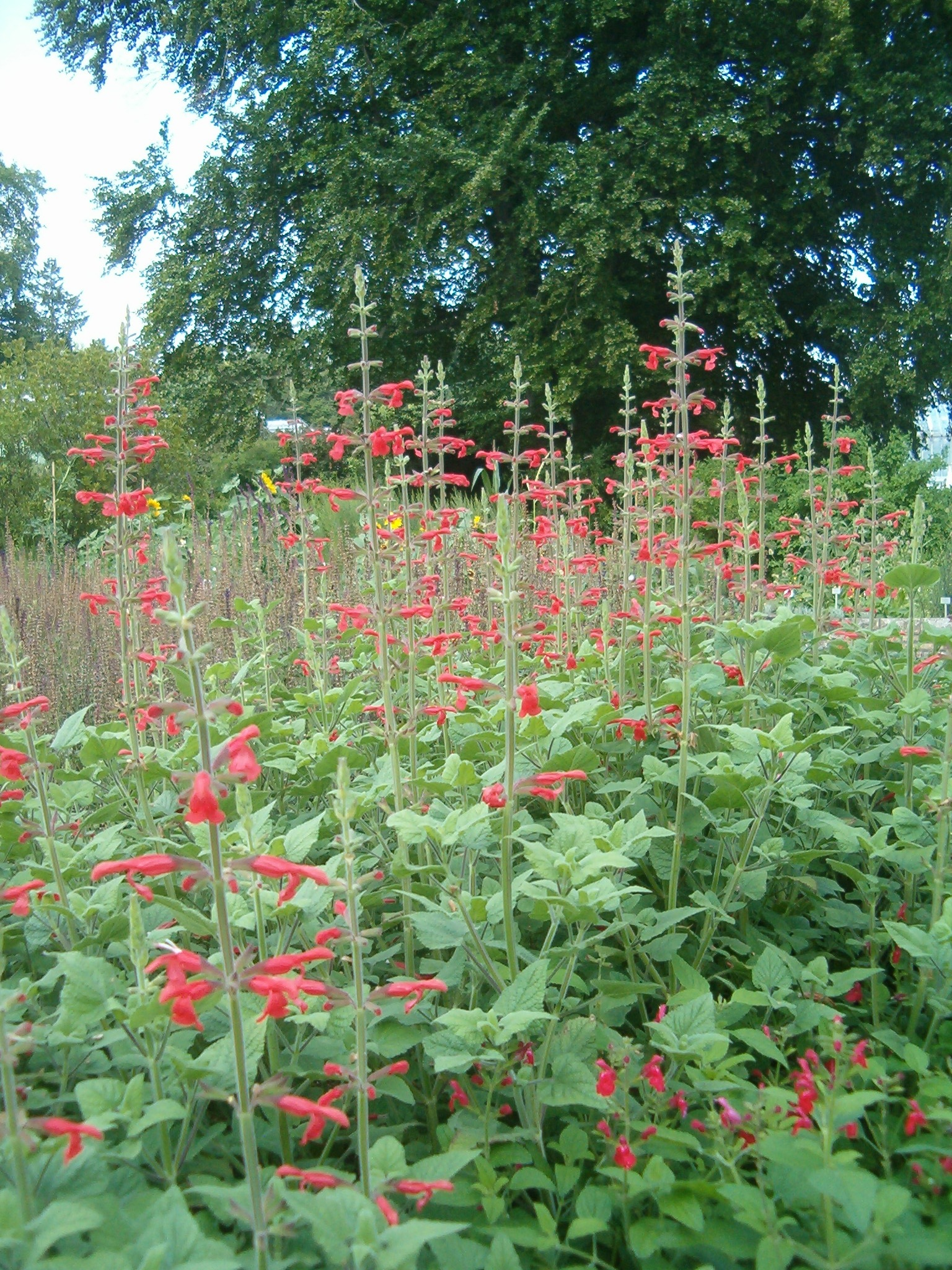 At Botanical Gardens Berlin-Dahlem Species Salvia darcyi